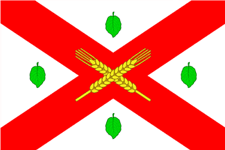 Flag of Dondușeni District